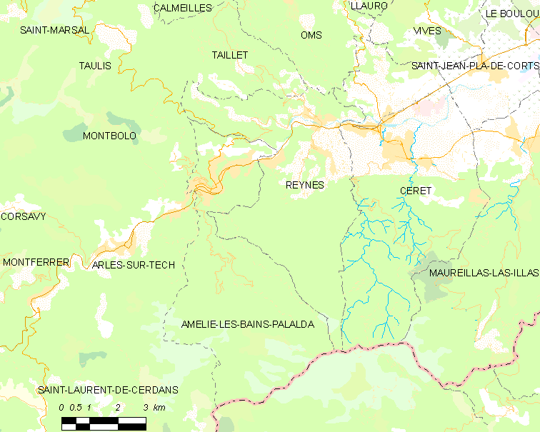 Map of French municipality